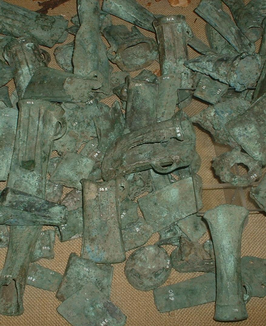 Assorted bronze celtic castings dating from the bronze age , found as part of a cache, probably intended for recycling. Photograph was taken in the Somerset County Museum in Taunton on 29-Oct-05.